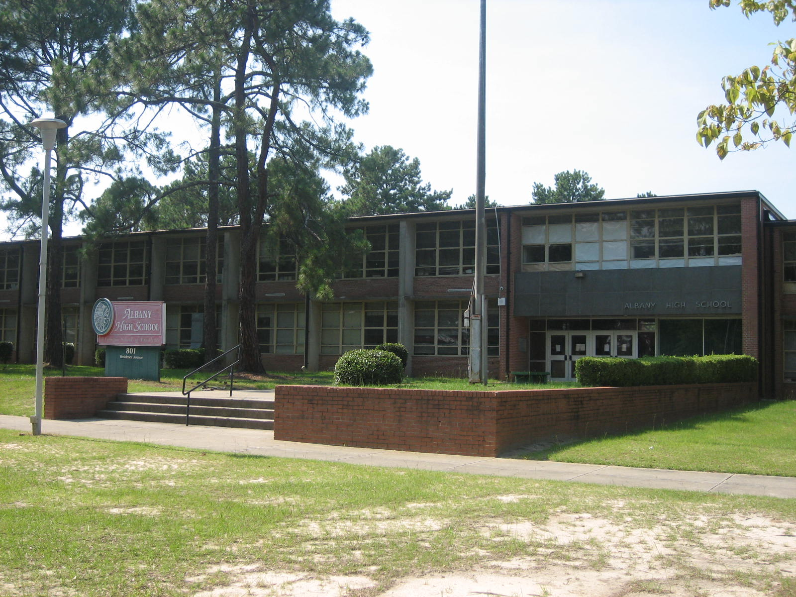 Albany High School frontage.